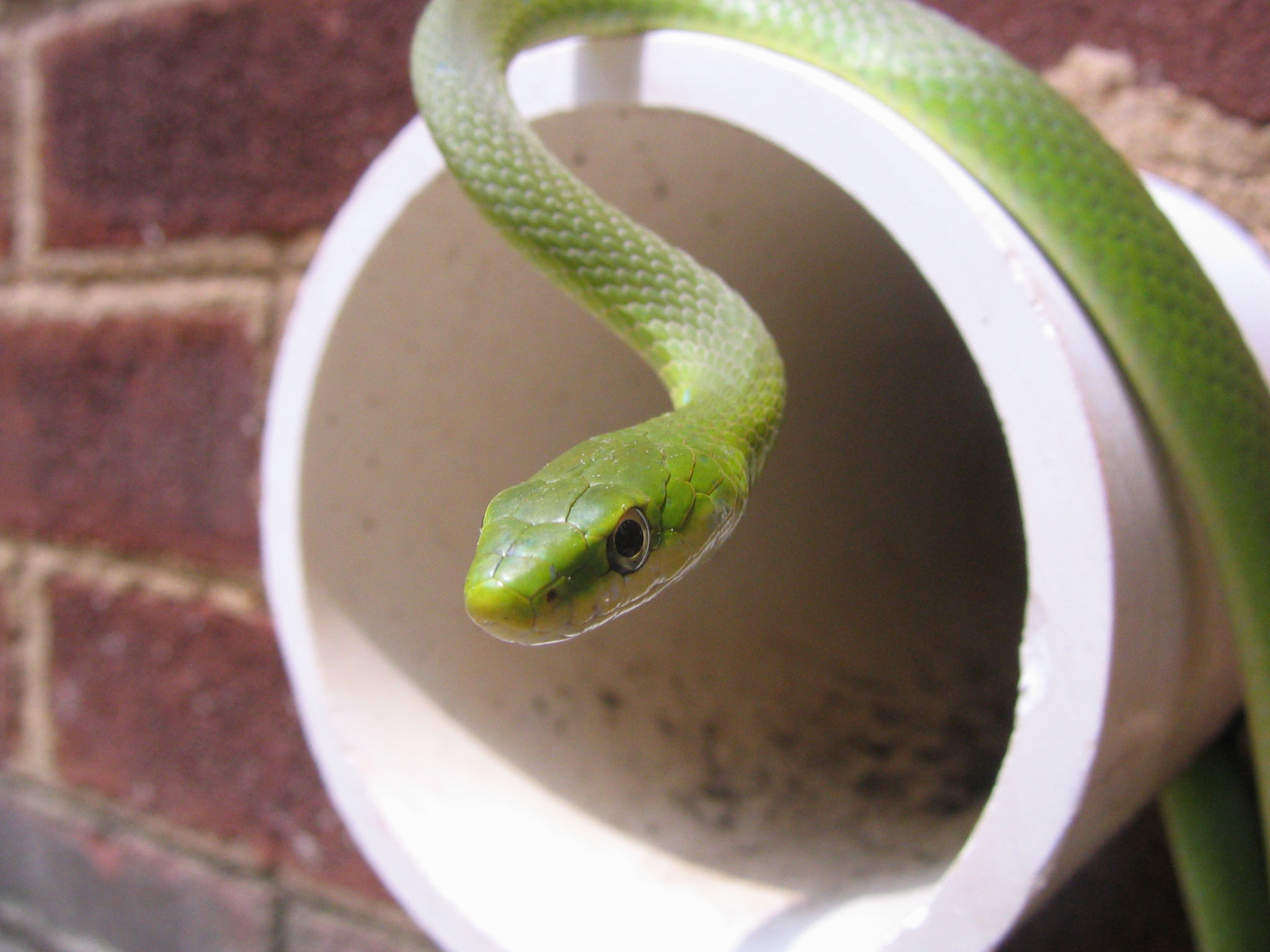 Green snake on retaining wall drain